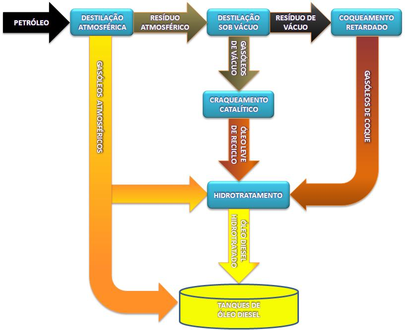 Generic diesel refining flowsheet.